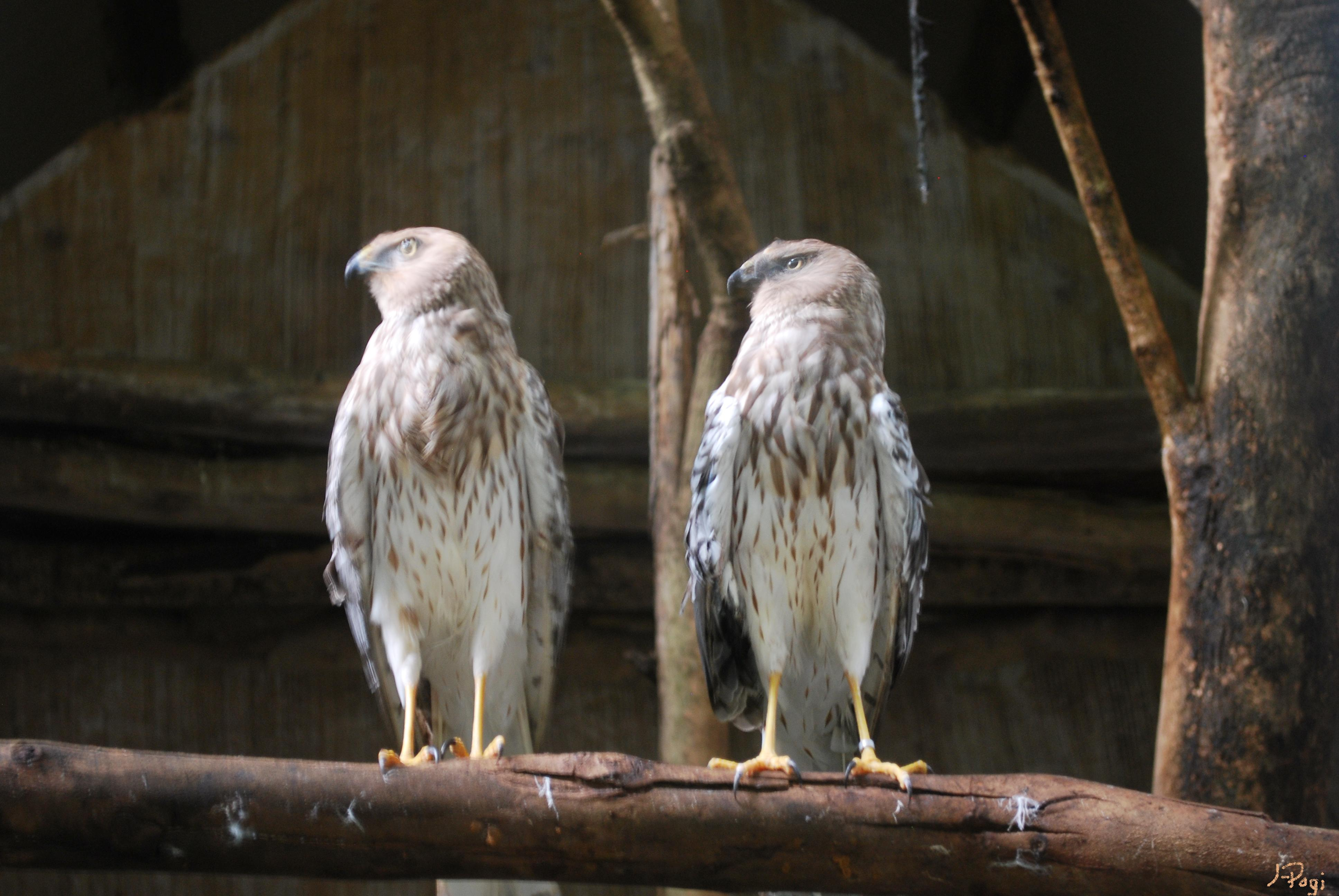 Pearched Pied Harriers